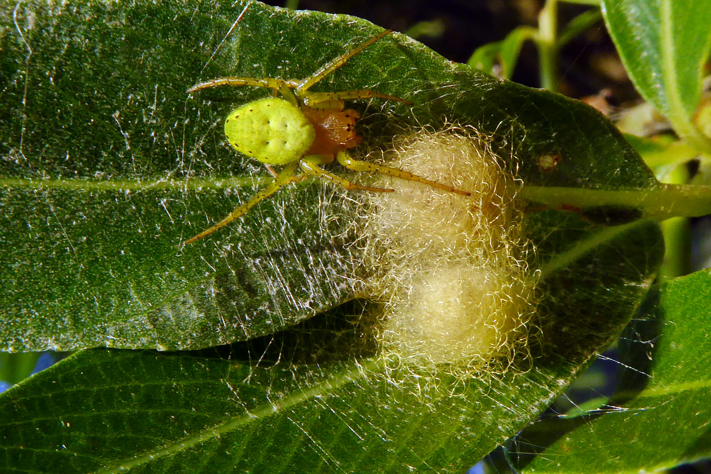 A female Cucumber green spider (Araniella cucurbitina) with two egg cocoons, the photo was taken in Lower Saxony.